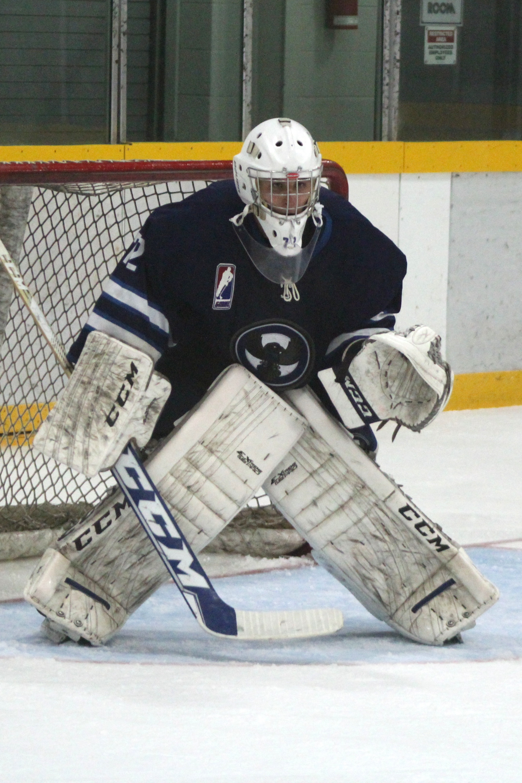 These images of GMHL Action action during the 2015-16 season are taken by Devan Mighton.